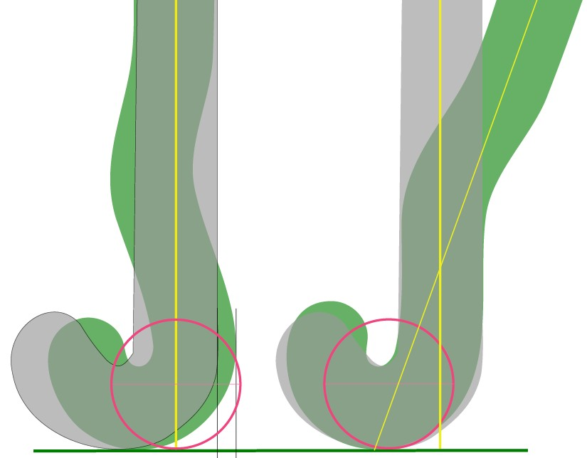 Comparison of ball position on hook and set-back sticks during stop of ball.